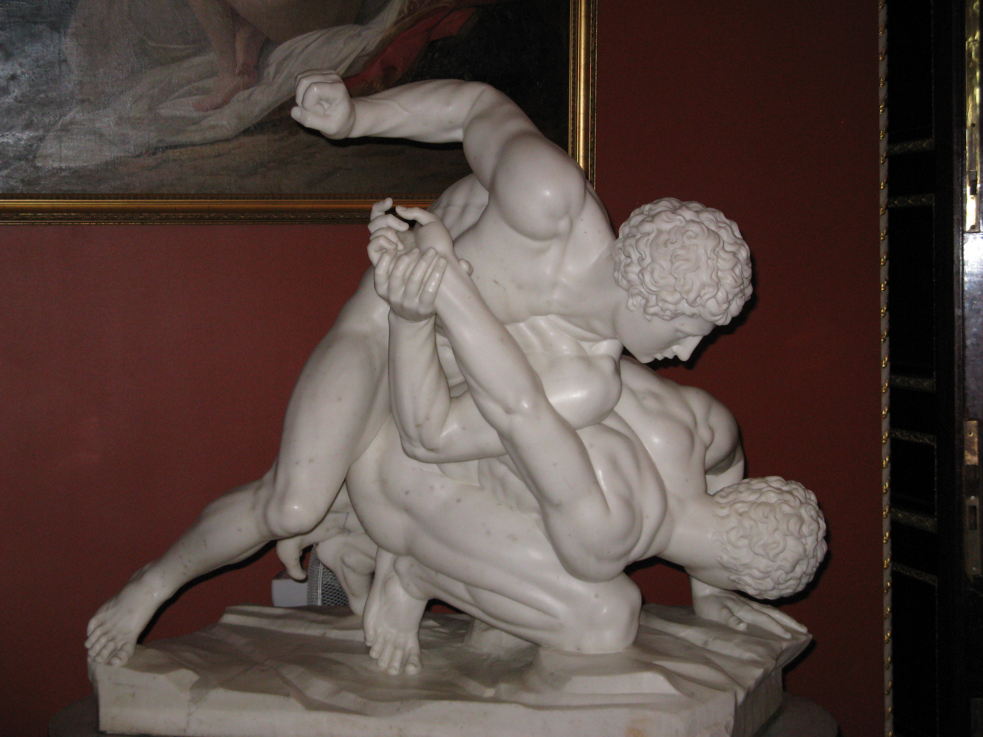 The Wrestlers at Yusupov Palace